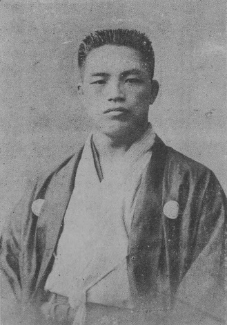 A Japanese judoka, Jōin (correct name:Tsunetane) Oda.